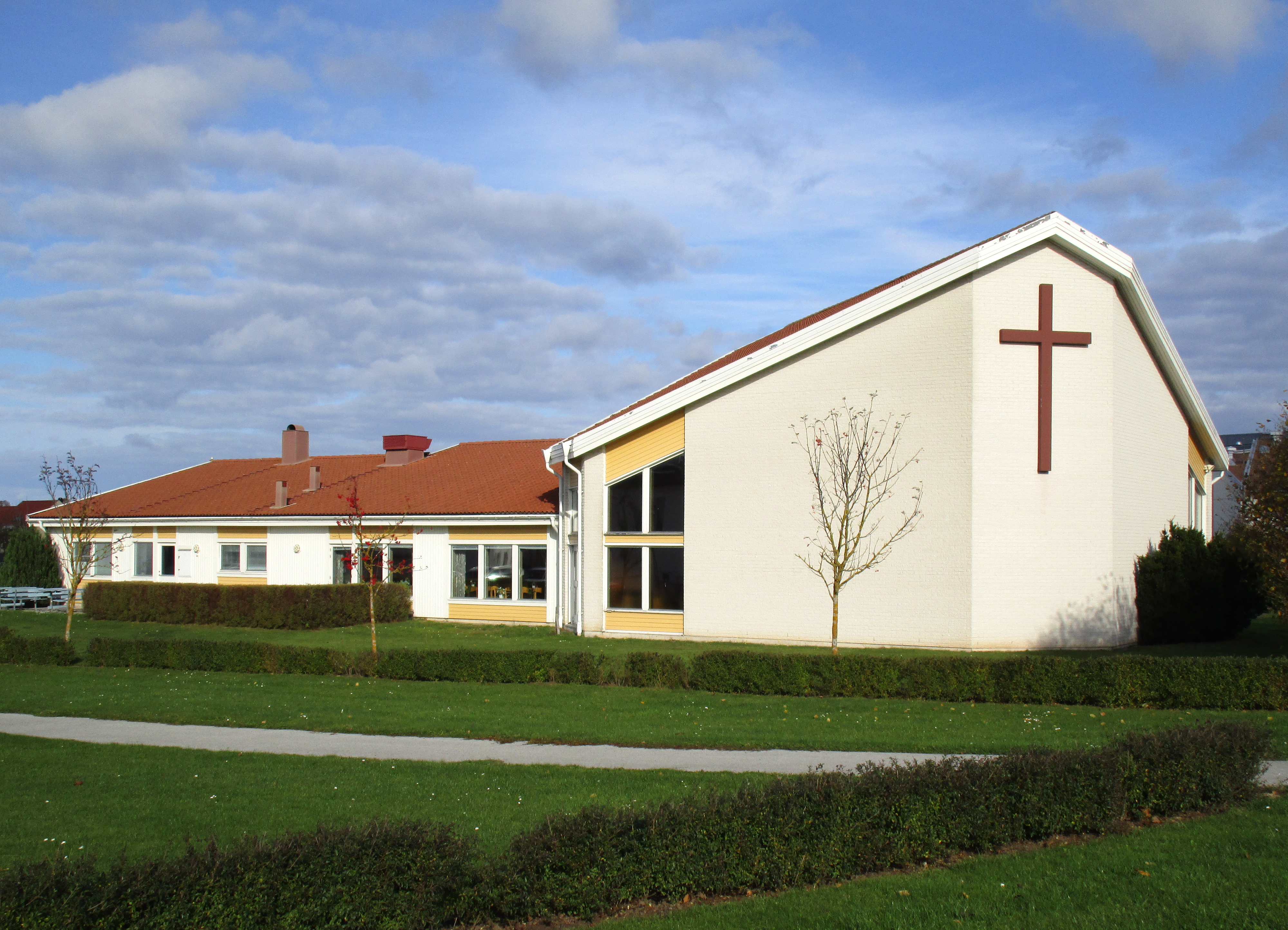 Pentecostal church in Visby, Gotland